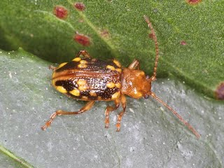 Chalcolampra